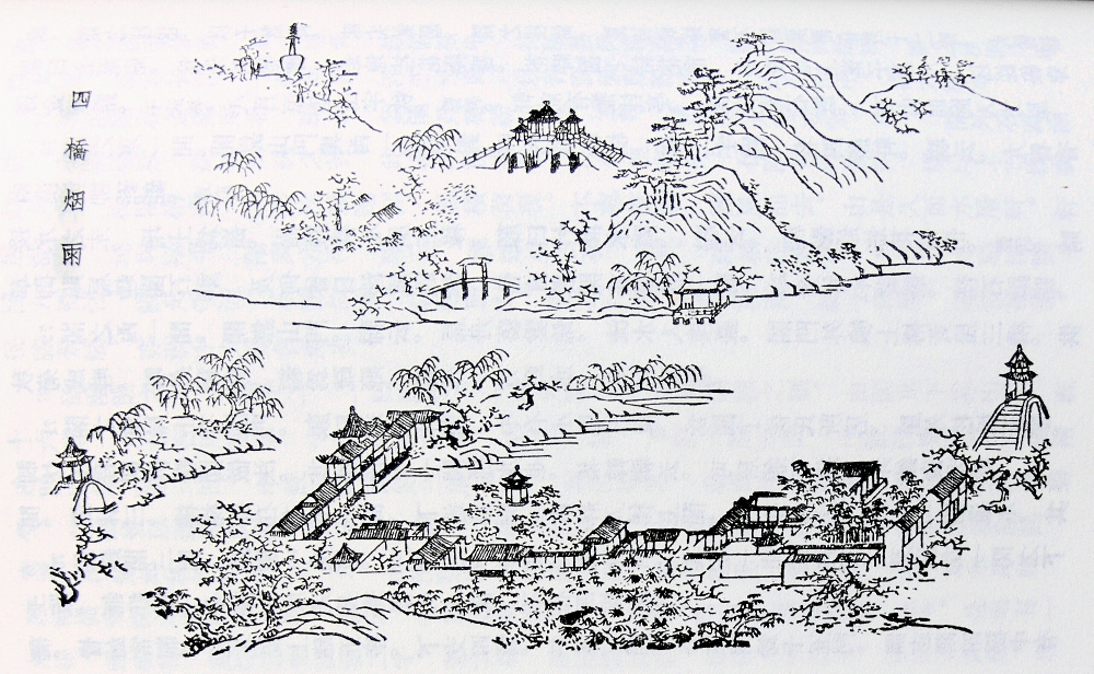 Four Bridges in Rain and Mist (Yangzhou)